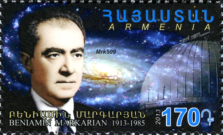 100th Anniversary of Benjamin Margaryan